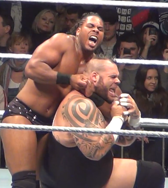 JTG at a WWE live event in Moscow, Russia at the Luzhniki Sports Arena on 4/11/2012, taken with a Nikon Coolpix P500